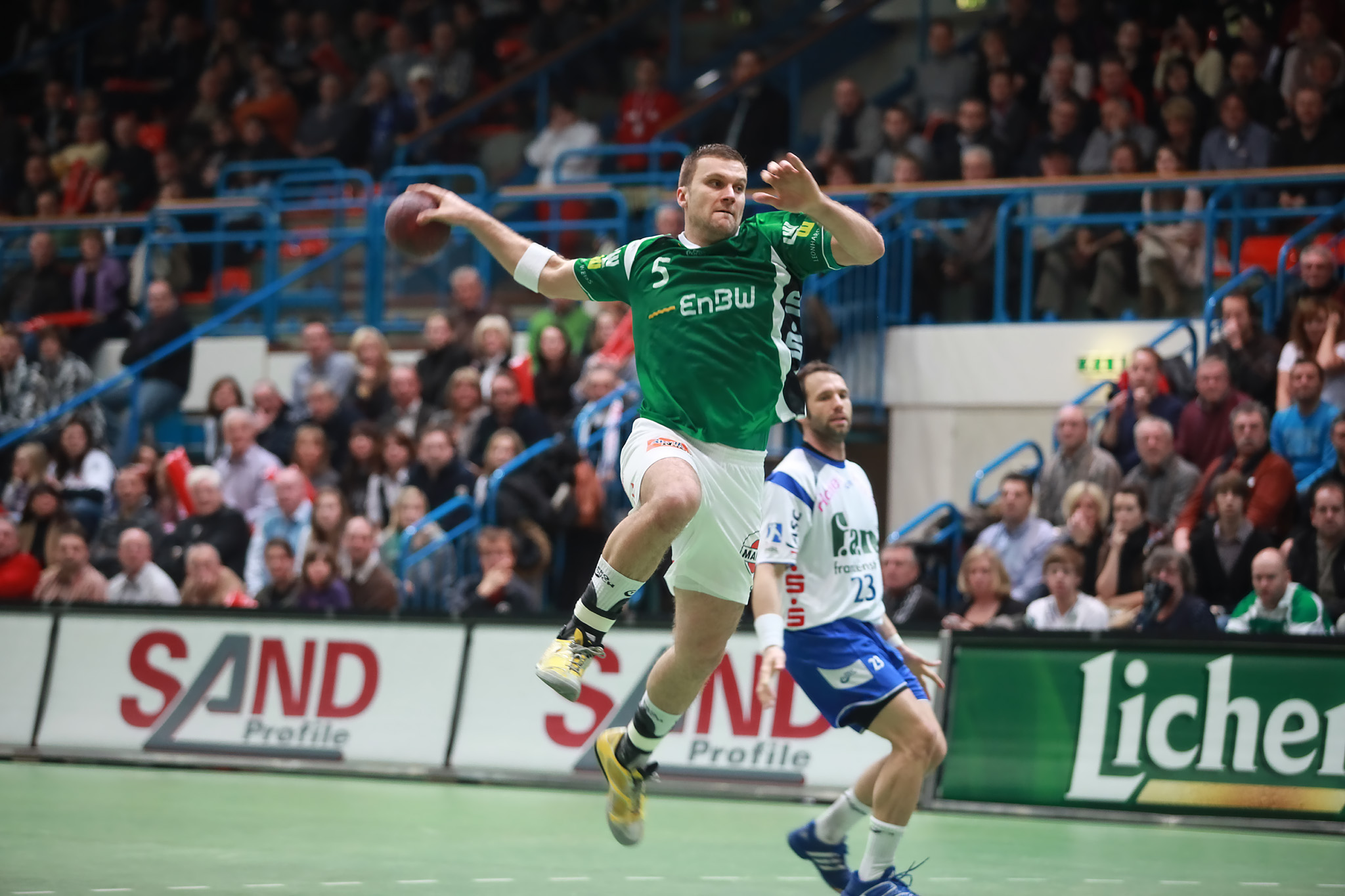 Dragoș Oprea, German handball player from Frisch Auf Göppingen, on December 22nd, 2010 in a Bundesliga match TV Großwallstadt – Frisch Auf Göppingen. The game took place in the f.a.n. frankenstolz arena of Aschaffenburg